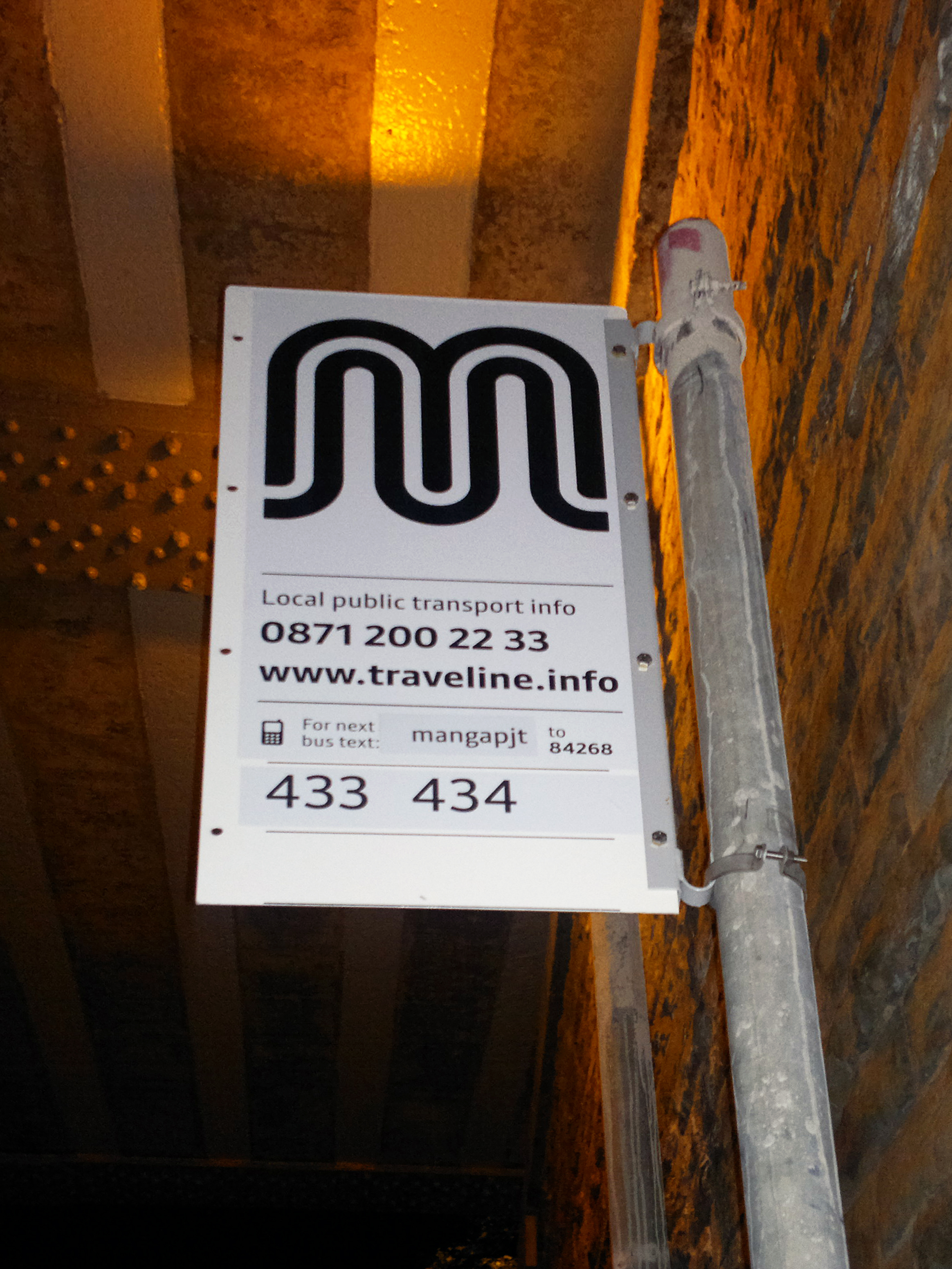 A Greater Manchester PTE bus stop sign in Newbold, Rochdale, Greater Manchester. This design of sign was were introduced to Greater Manchester in 2011.